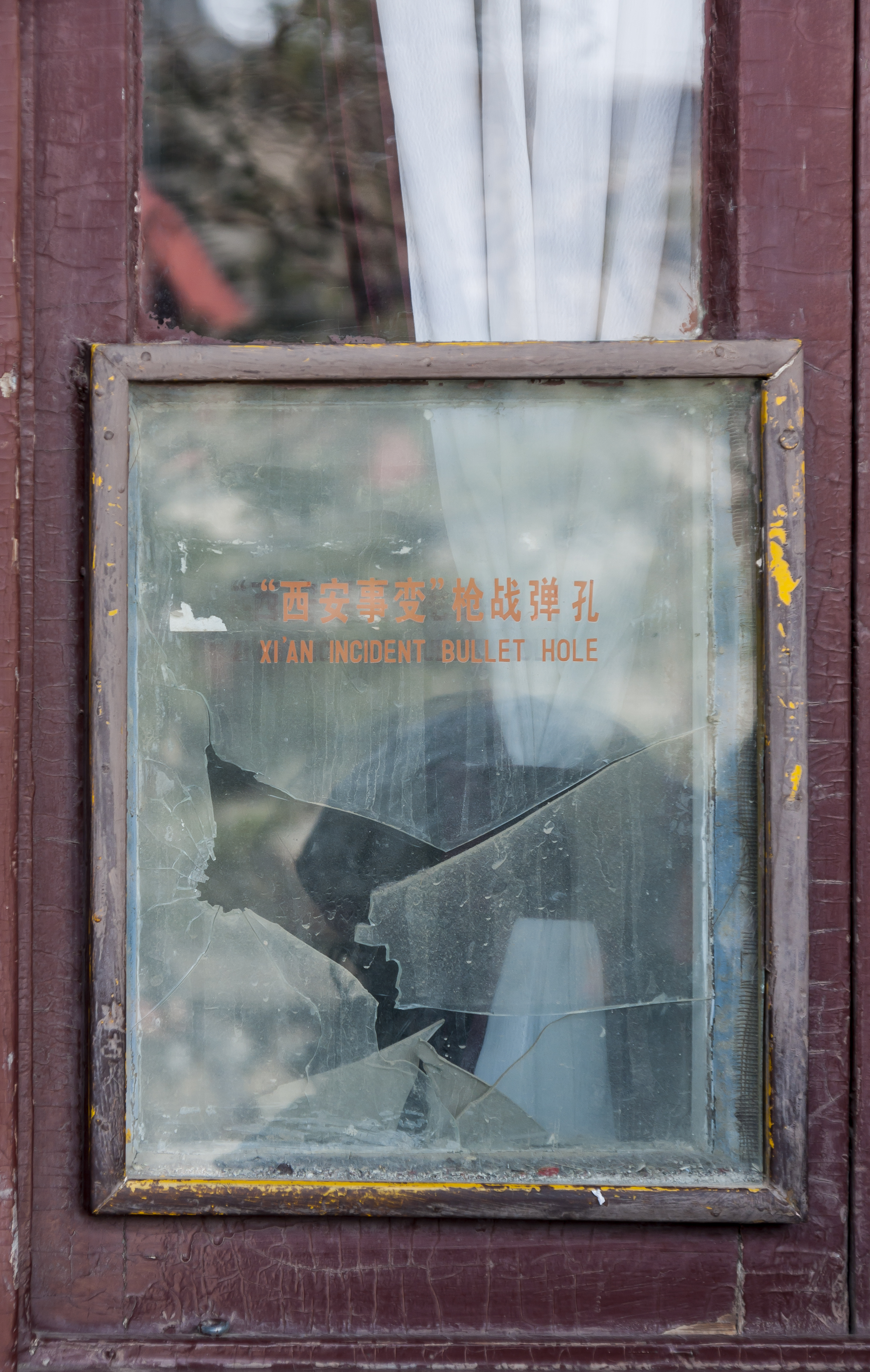 Lintong, Xi'an, China: Bullet hole at a window of the 5-room-house on the historical site of Huaqing Pool where Chiang Kai-shek was kidnapped in 1936